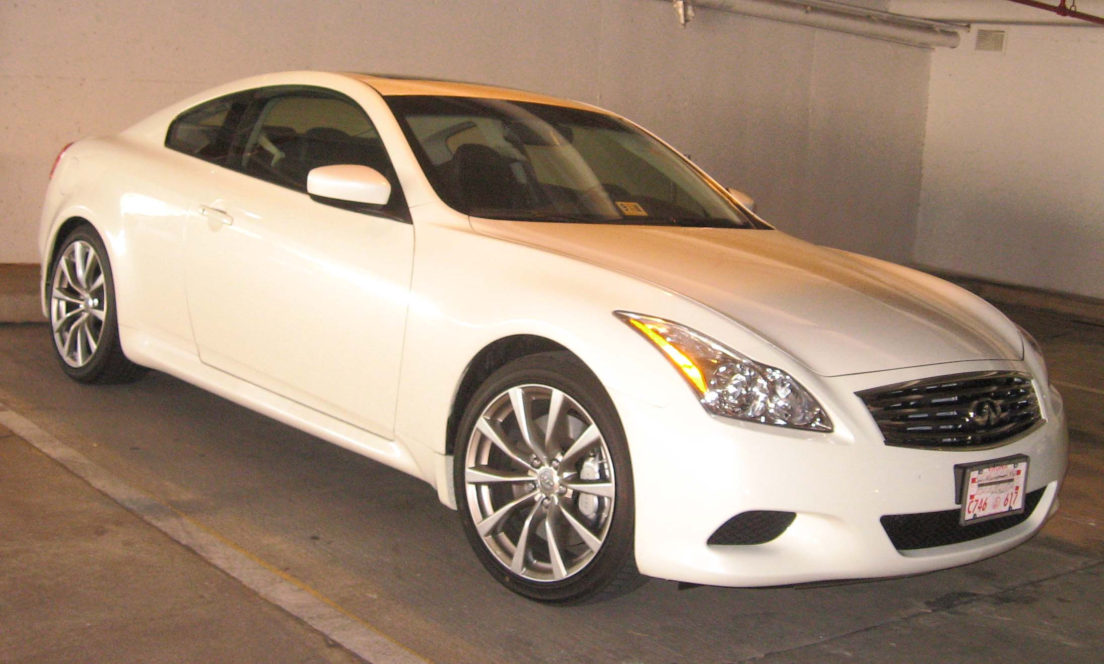 2008 Infiniti G37 photographed in College Park, Maryland, USA.